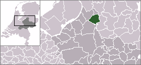 Locator map of Dutch municipalities in Gelderland (LocatieHeerde.png)